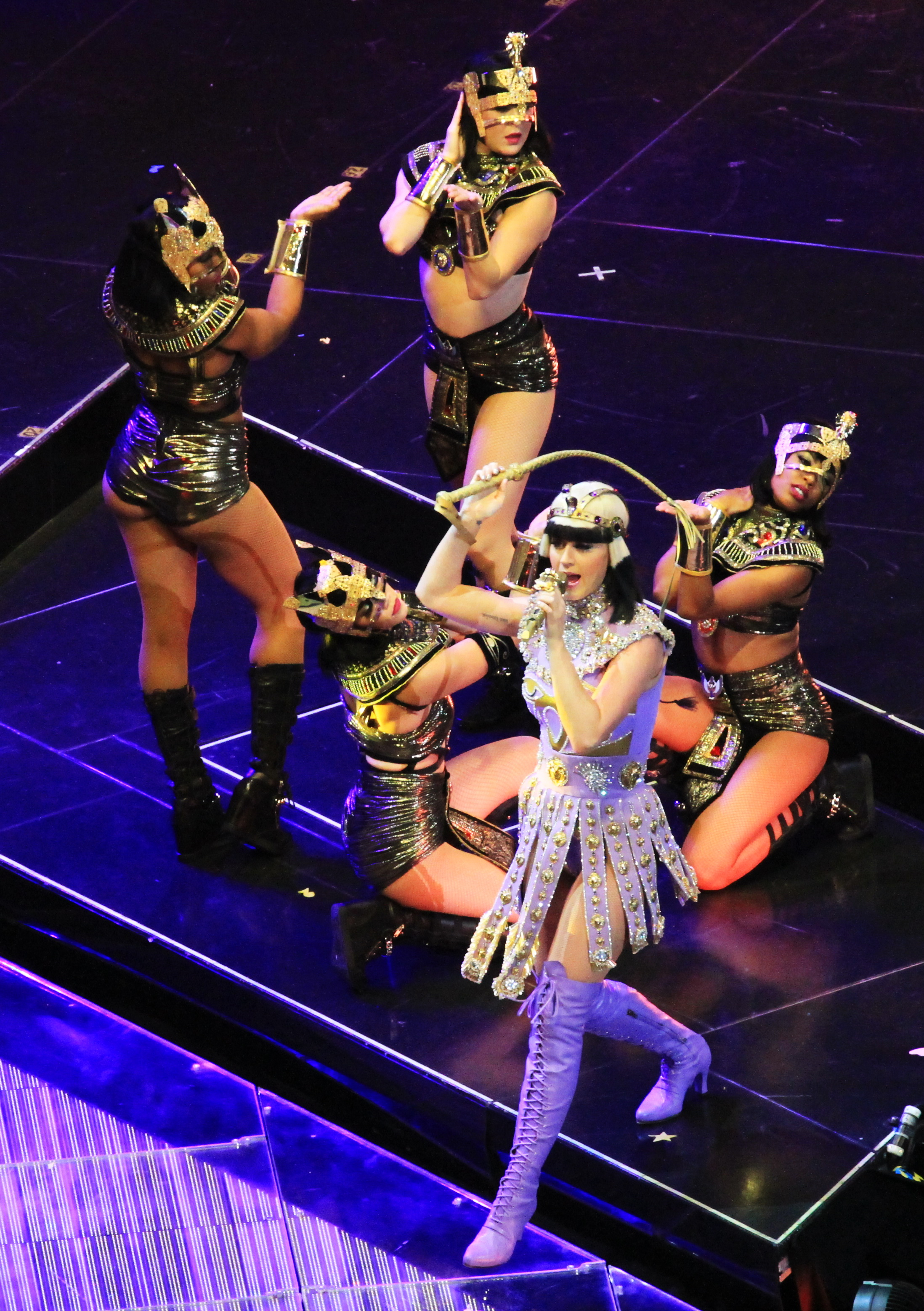 Katy Perry performing "Dark Horse" at Prudential Center in Newark in July 12, 2014.